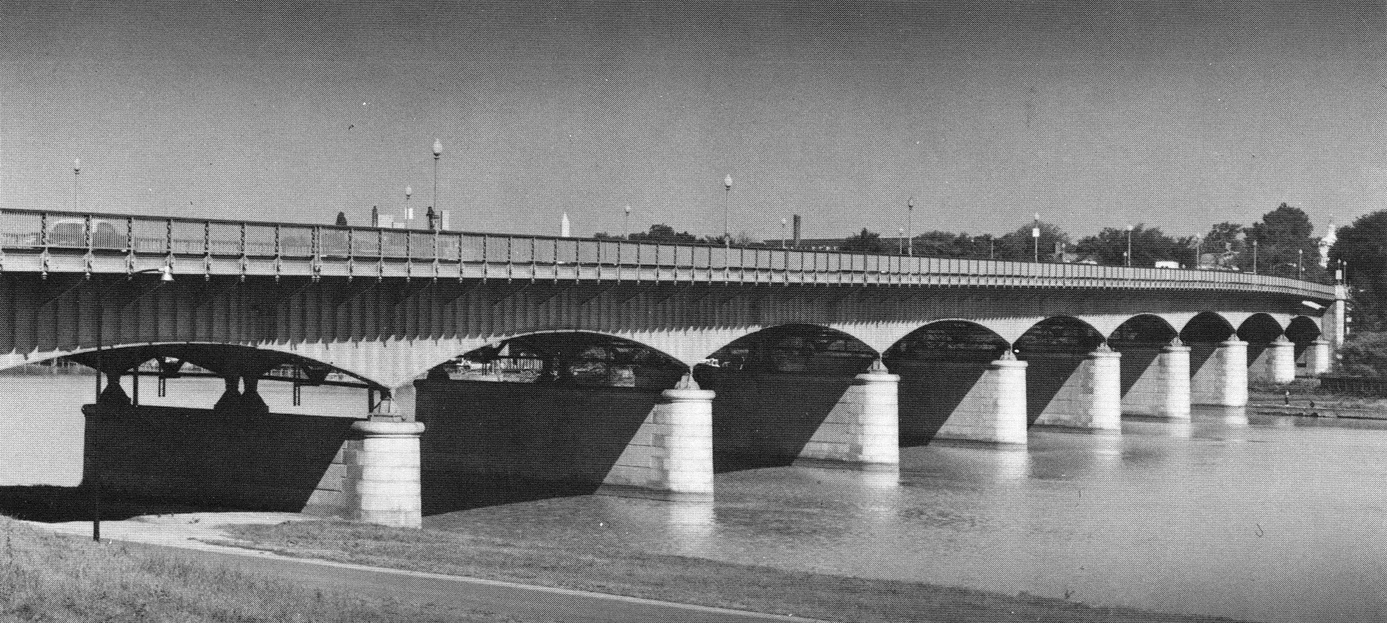 Looking west at the John Philip Sousa Bridge over the Anacostia River in Washington, D.C., in the United States in 1968.